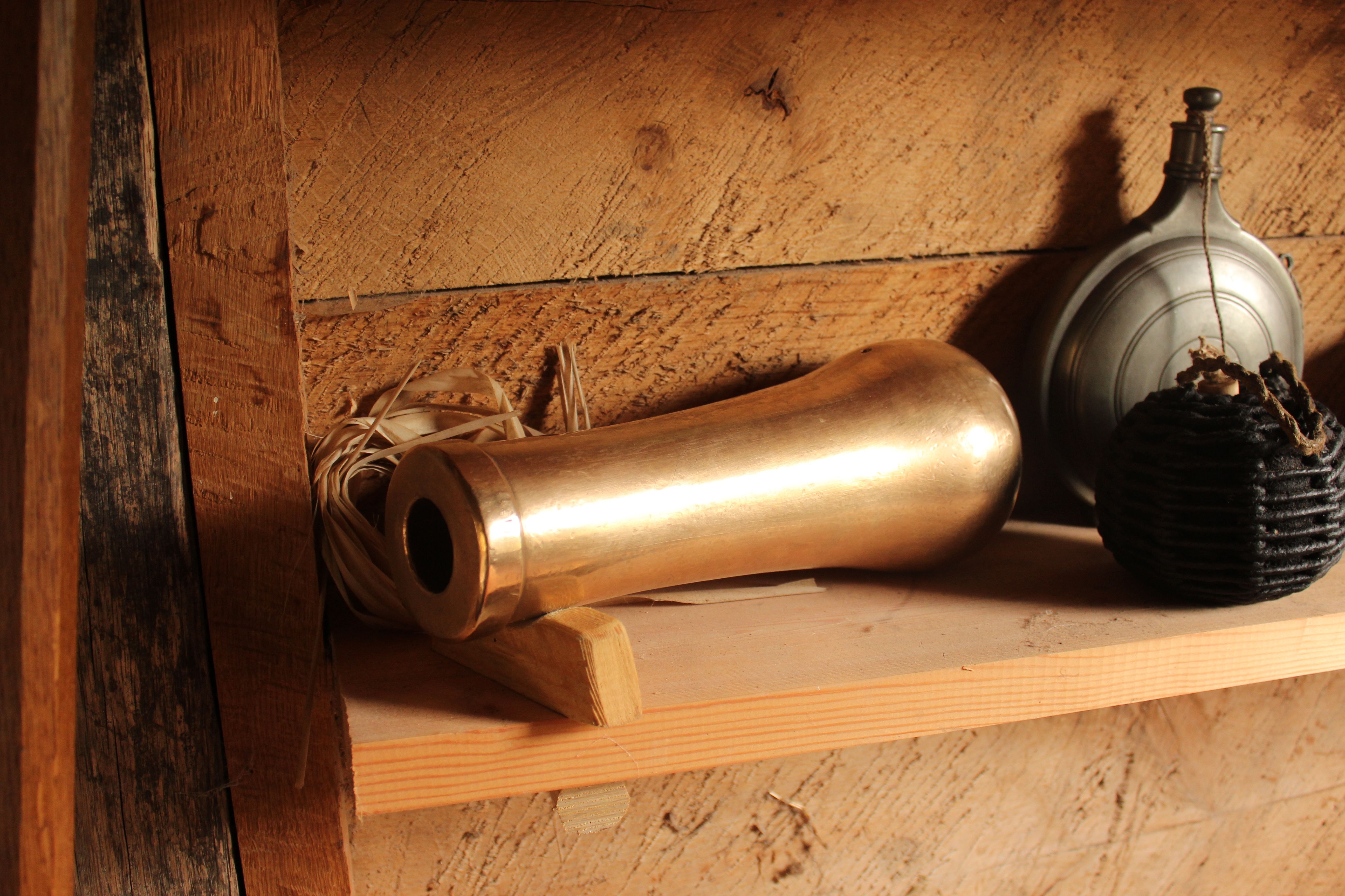 Kopi af Loshultkanonen på Middelaldercentret